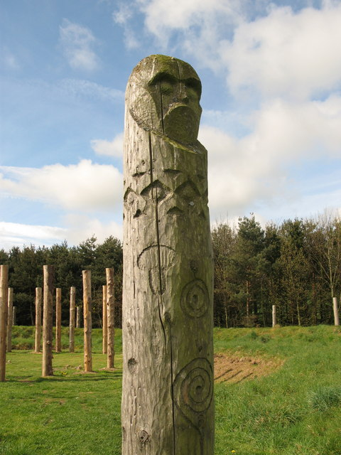 Maelmin - reconstruction of henge. Maelmin is a heritage site that tells the story of ancient Northumberland. The site was opened in 2000. There are three full-size archaeological reconstructions. This one is of the Milfield North henge monument. It was built in 2000, part of it by a team of volunteers living as Neolithic men and women and using only the tools of that period.